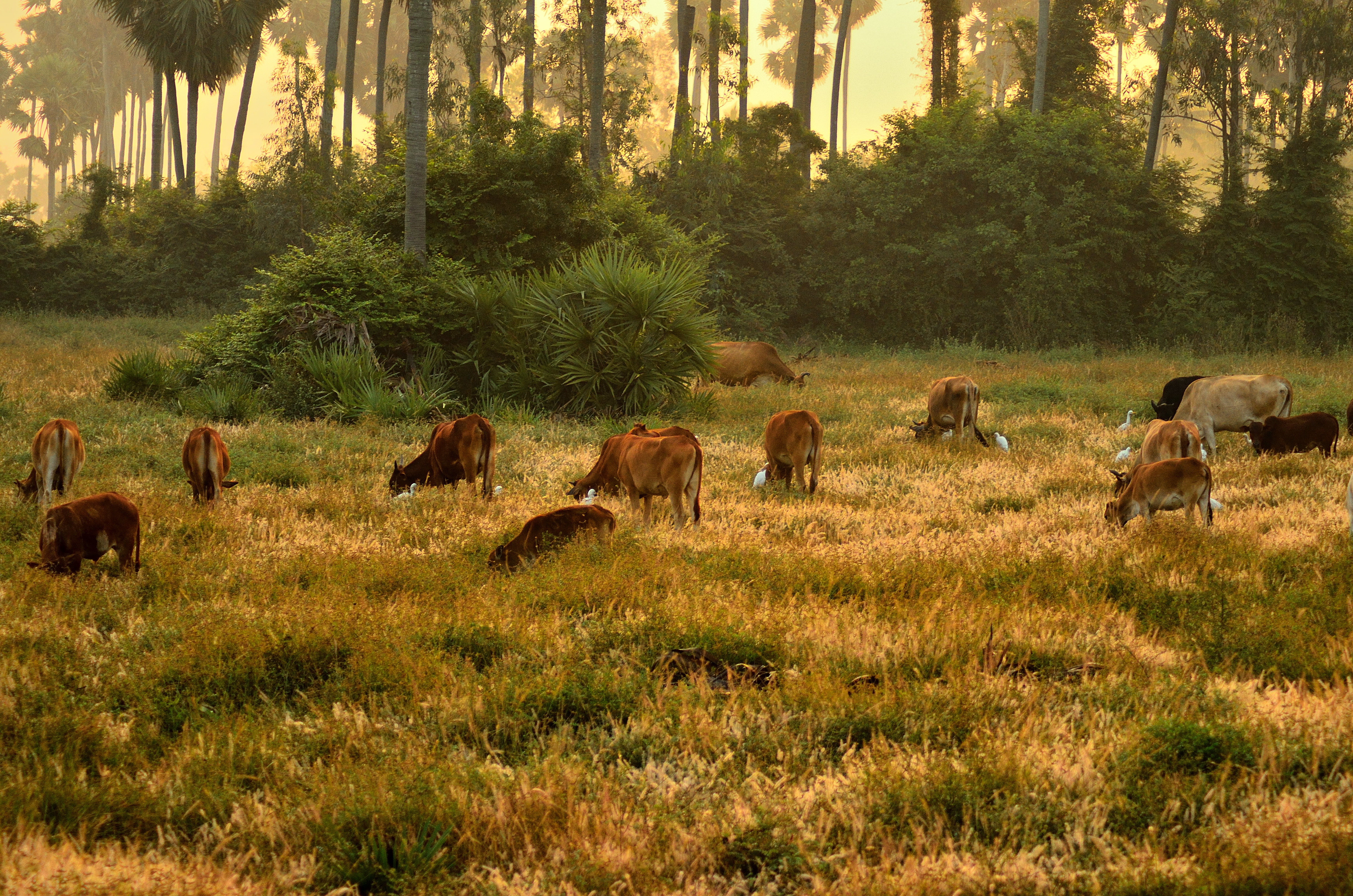 Cows grazing